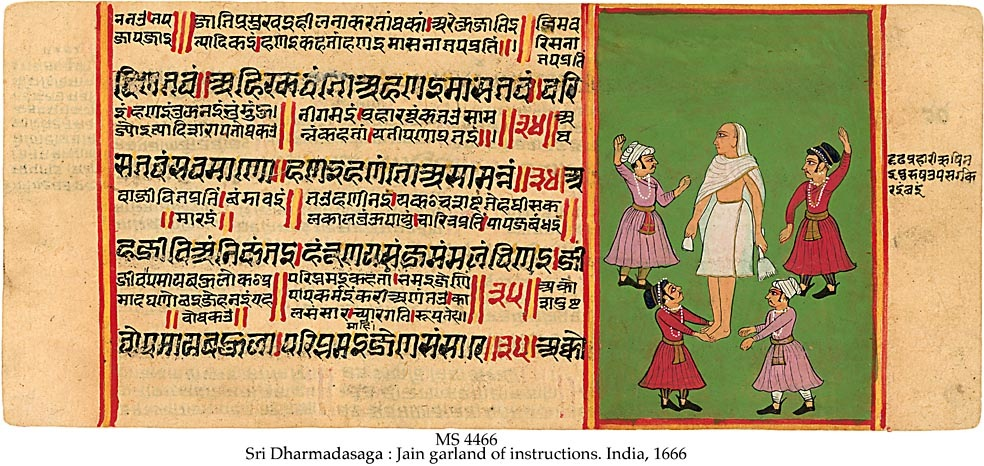 [1] MS in Jain Prakrit and Old Gujaranti on paper, Rupnagar, Rajastan, India, 1666, 76 ff. (-16 ff.), 11x25 cm, single column, (10x22 cm), 4 lines main text, 2-4 lines of interlinear commentary for each text line, in Jain Devanagari book script, filled with red and yellow, 17 paintings in colours mostly of Svetambara monks influenced by the Mughal style. The text is a Prakrit didactic work of how best to live a proper Jain life, aimed probably at the laity. The Svetambara pontiff Sri Dharmadasagaî lived mid 6th c. The Old Gujarati prose commentary was written in 1487. The colophon gives the place and date, and the name of the religious leader Sri Namdalalaji on whose order the work was transcribed.